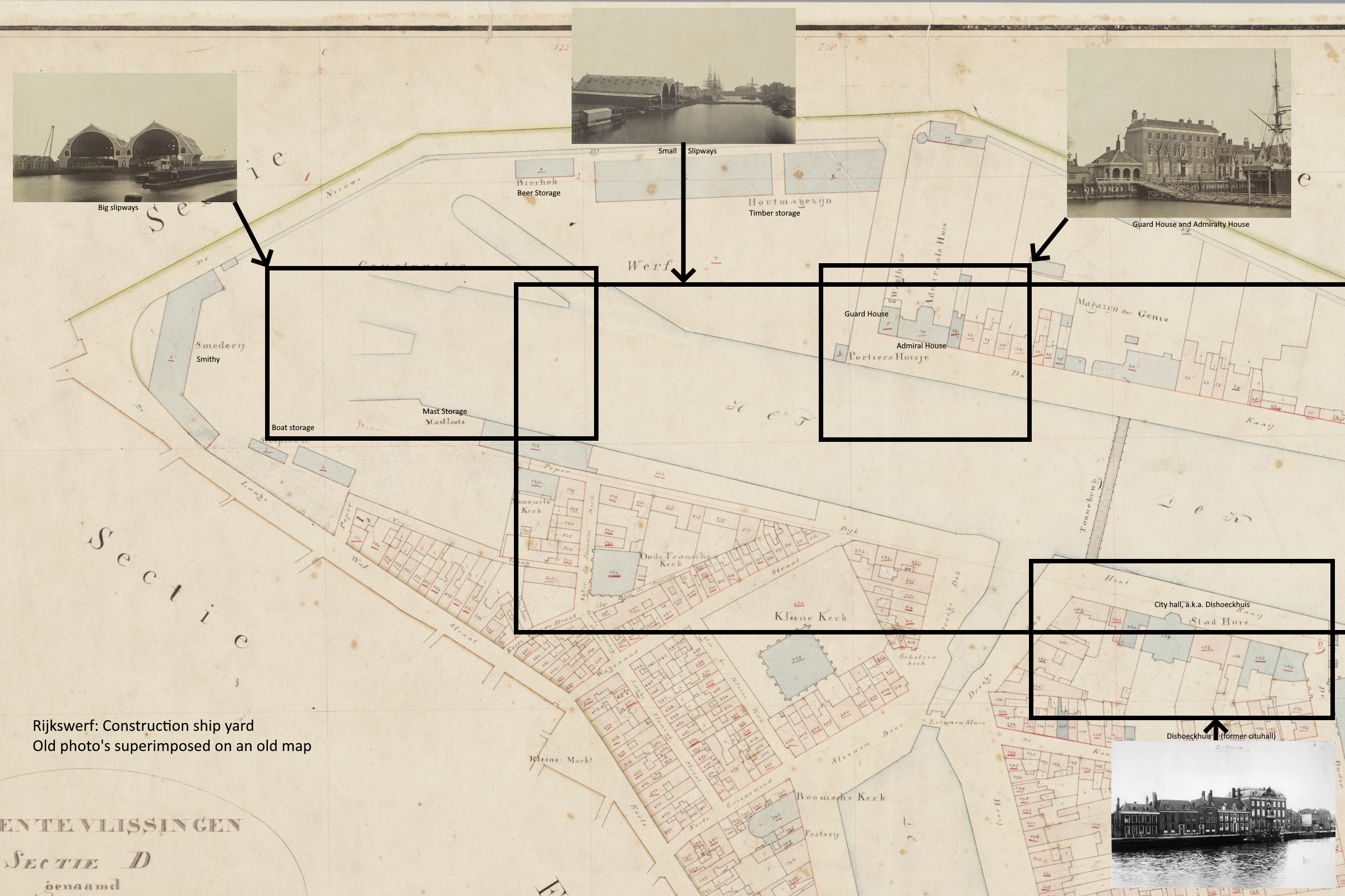 Several old photographs of the Rijkswerf Vlissingen superimposed on the old map found at I made this because almost everything on the map has demolished since, and orientation is therefore very difficult for people foreign to Vlissingen (like me). Аҧсшәа: Oude foto's van de Rijkswerf Vlissingen en omgeving gecombineerd met de oude kaart Ik heb deze 'kaart' gemaakt omdat sindsdien bijna alles op de kaart afgebroken is. Daardoor is de oriëntatie voor mensen onbekend met de situatie erg moeilijk.